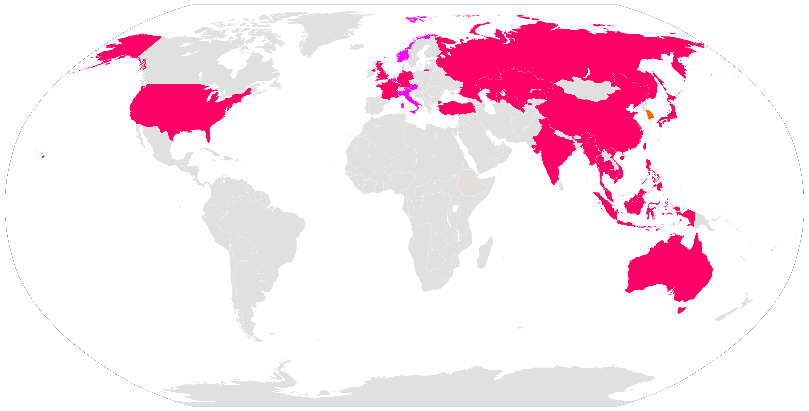 Brown: South Korea (Asiana's headquarters) Orange: Passenger destinations Light Orange: Cargo only destinations Yellow: Future passenger destinations